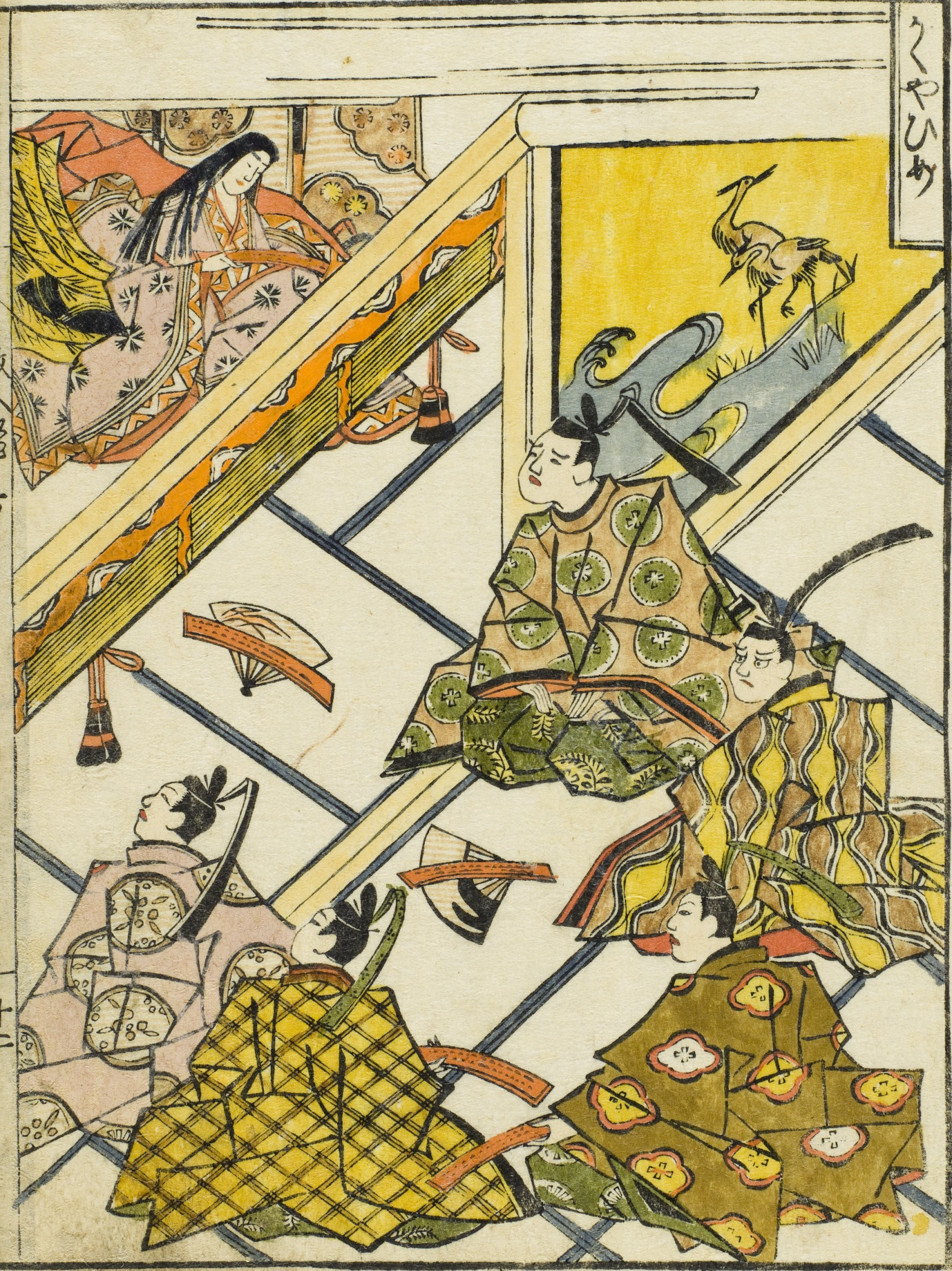 Japan, 17th century Series: A Collection of Beauties Prints; woodcuts Hand-colored woodblock print page from a book Sight: 19.69 x 14.61 cm. (7 3/4 x 5 3/4 in) The Joan Elizabeth Tanney Bequest (M.2006.136.25) Japanese Art